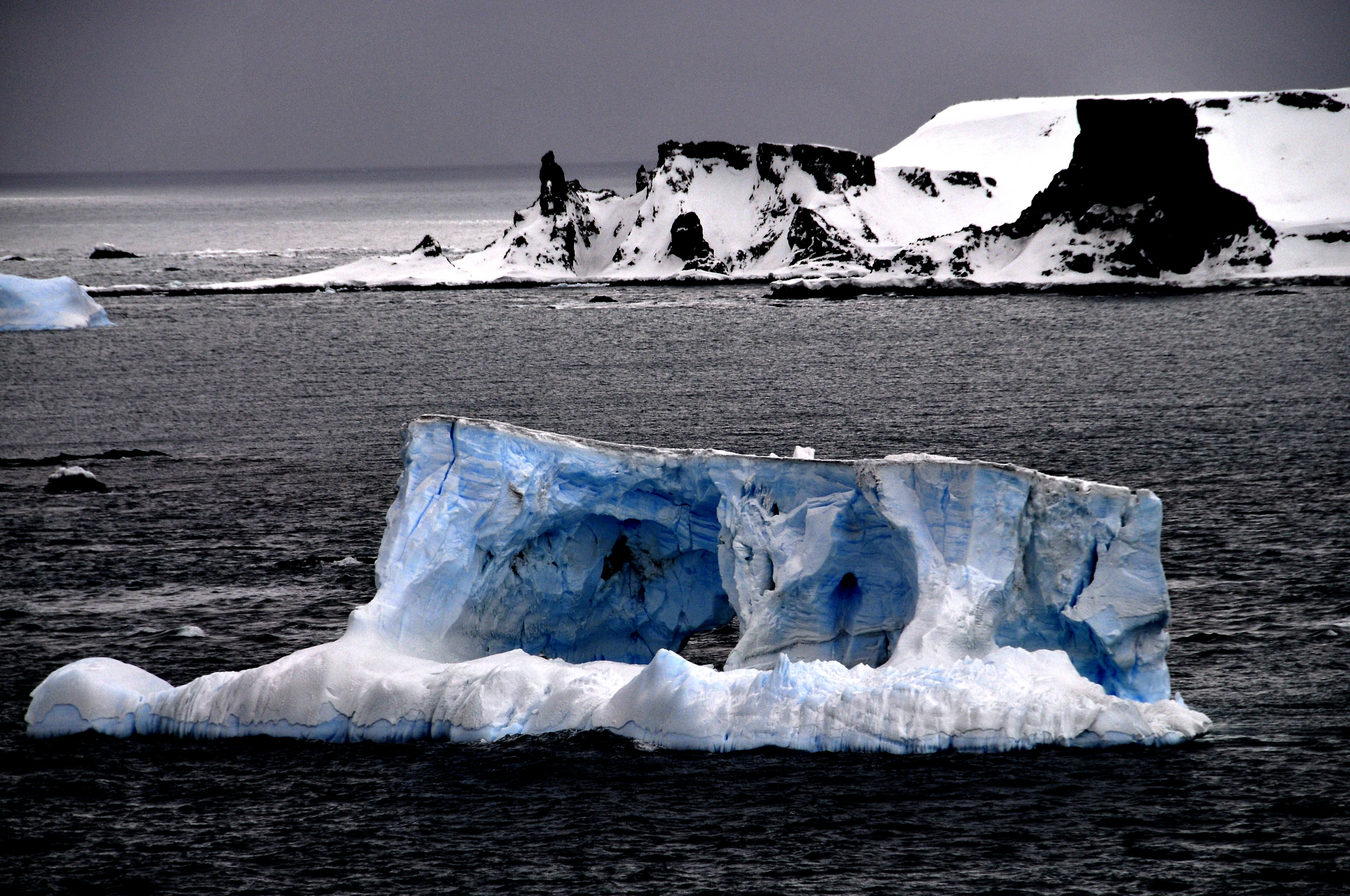 Small, floating iceberg, or "growler". Image ID: fish8255, NOAA's Fisheries Collection Location: Antarctica, Cape Shirreff, Livingston Island Photo Date: 1991 Photographer: Ray Buchheit Credit: NOAA NMFS SWFSC Antarctic Marine Living Resources (AMLR) Program